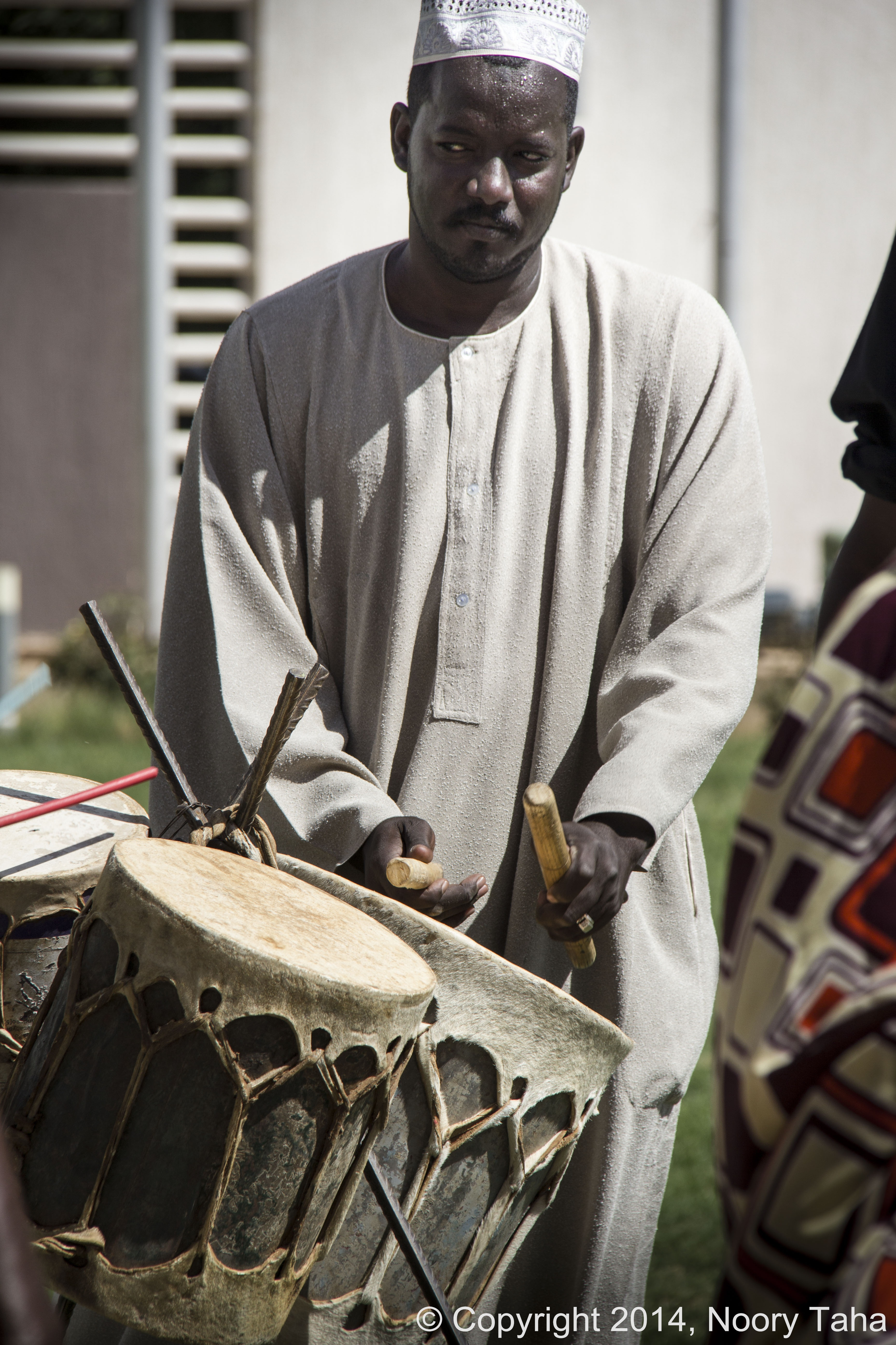 A guy playing a Sudanese traditional music instrument. This is an image of food from Sudan